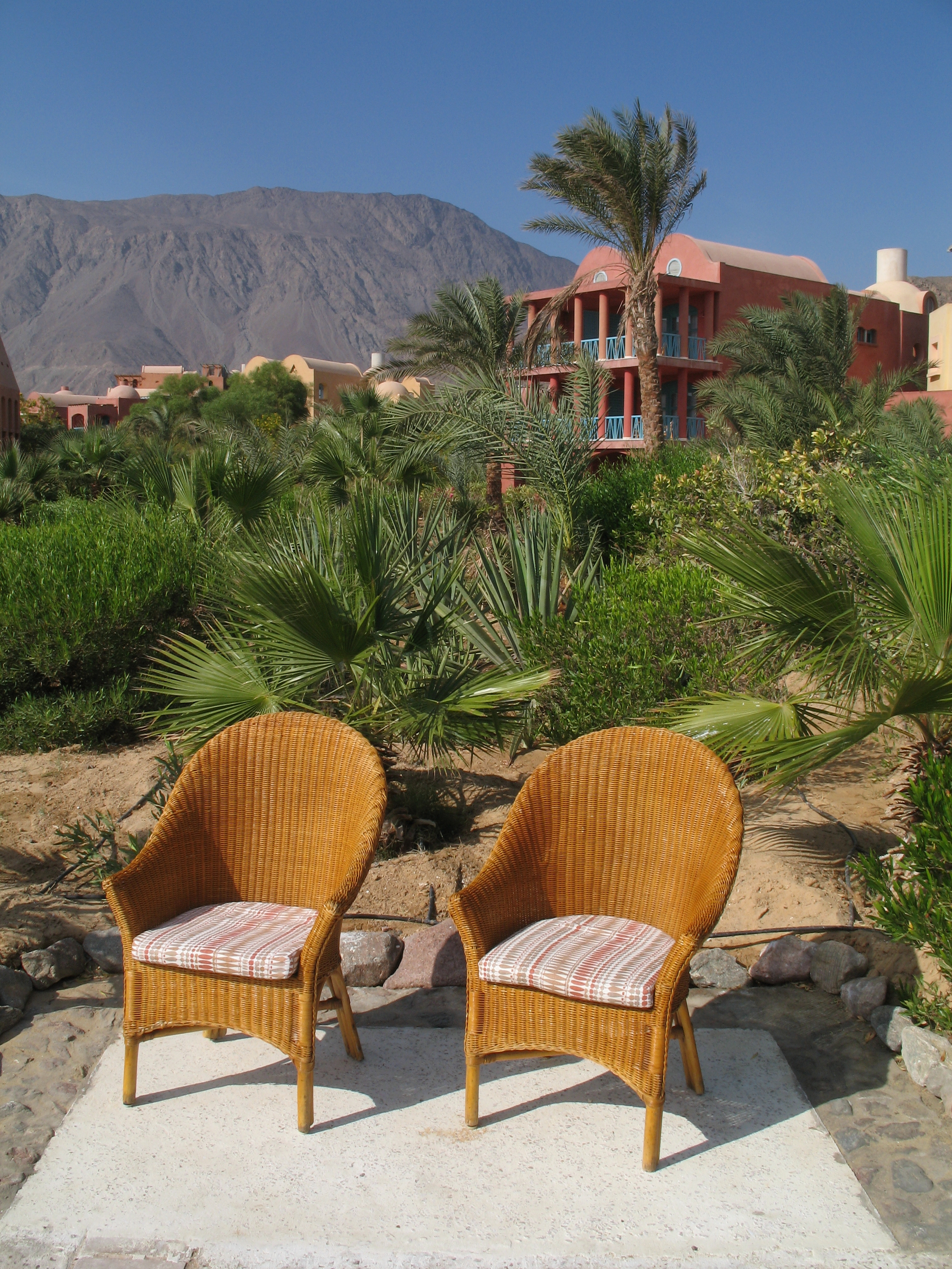 Taba Heights (Sinai, Egypt)